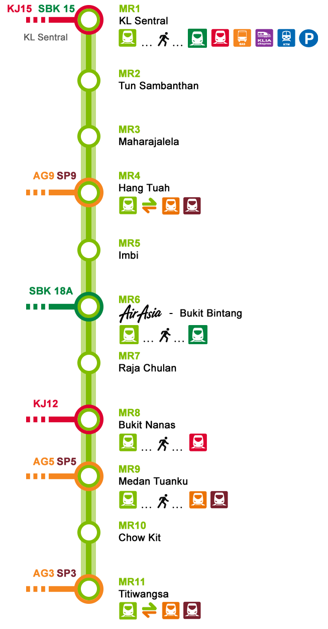 KL Monorail Line routes and interchanges